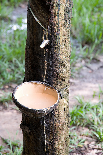 rubber tree